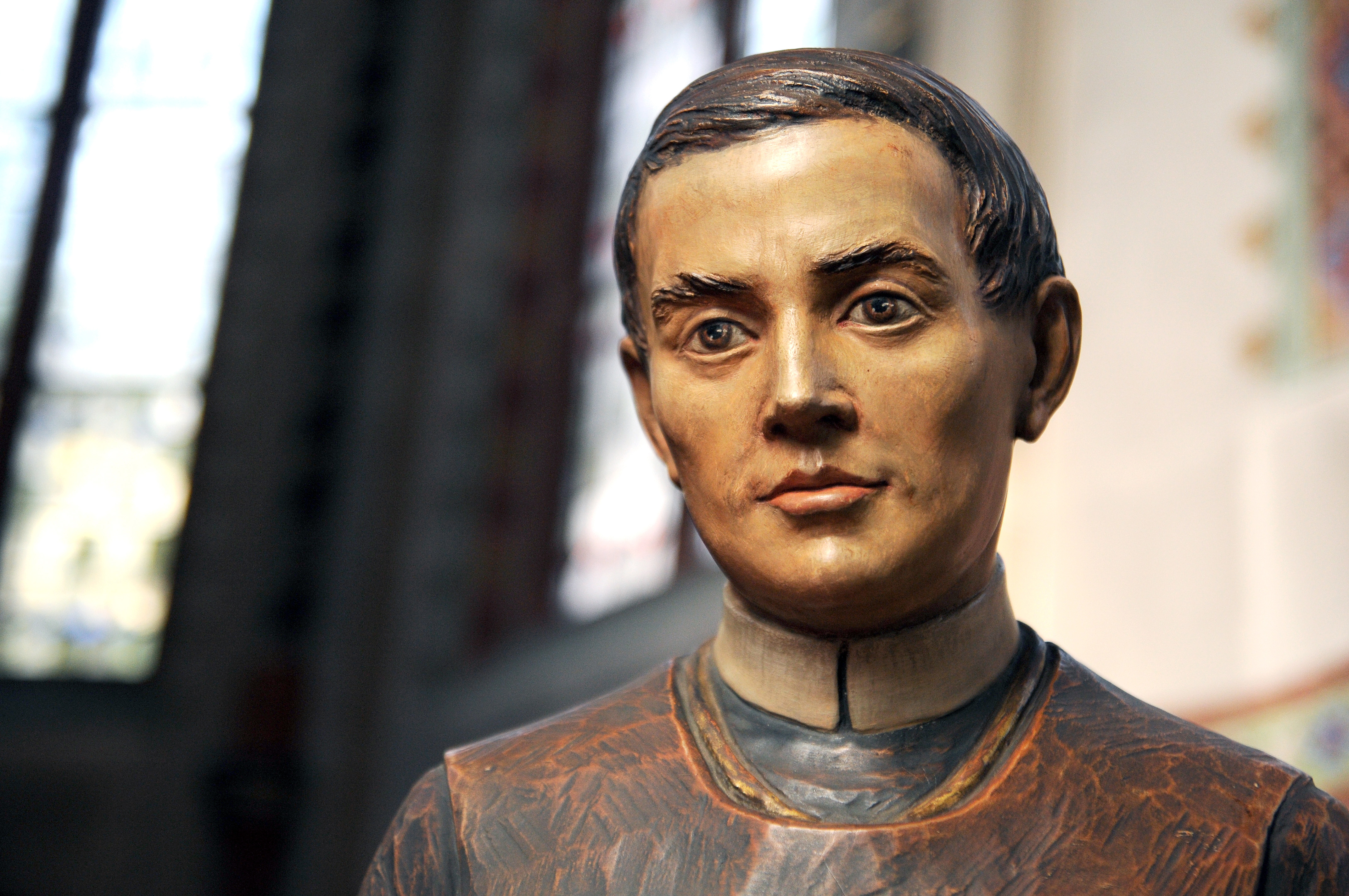 Brother Peter Friedhofen (1819-1860)